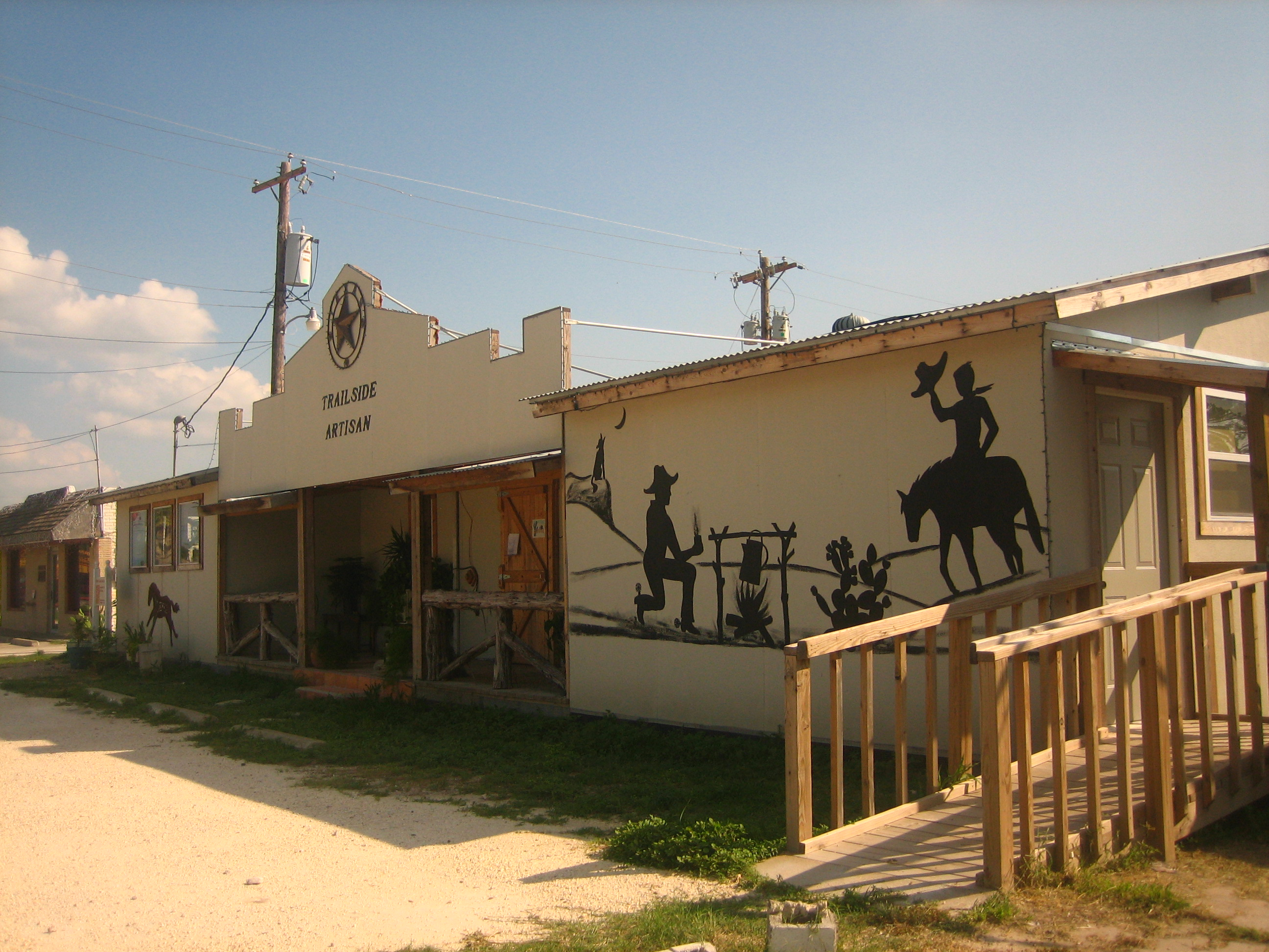 Trade Side Artisan shop in George West, Texas. Silhouettes of cowboys at camp are painted on the side of the building.